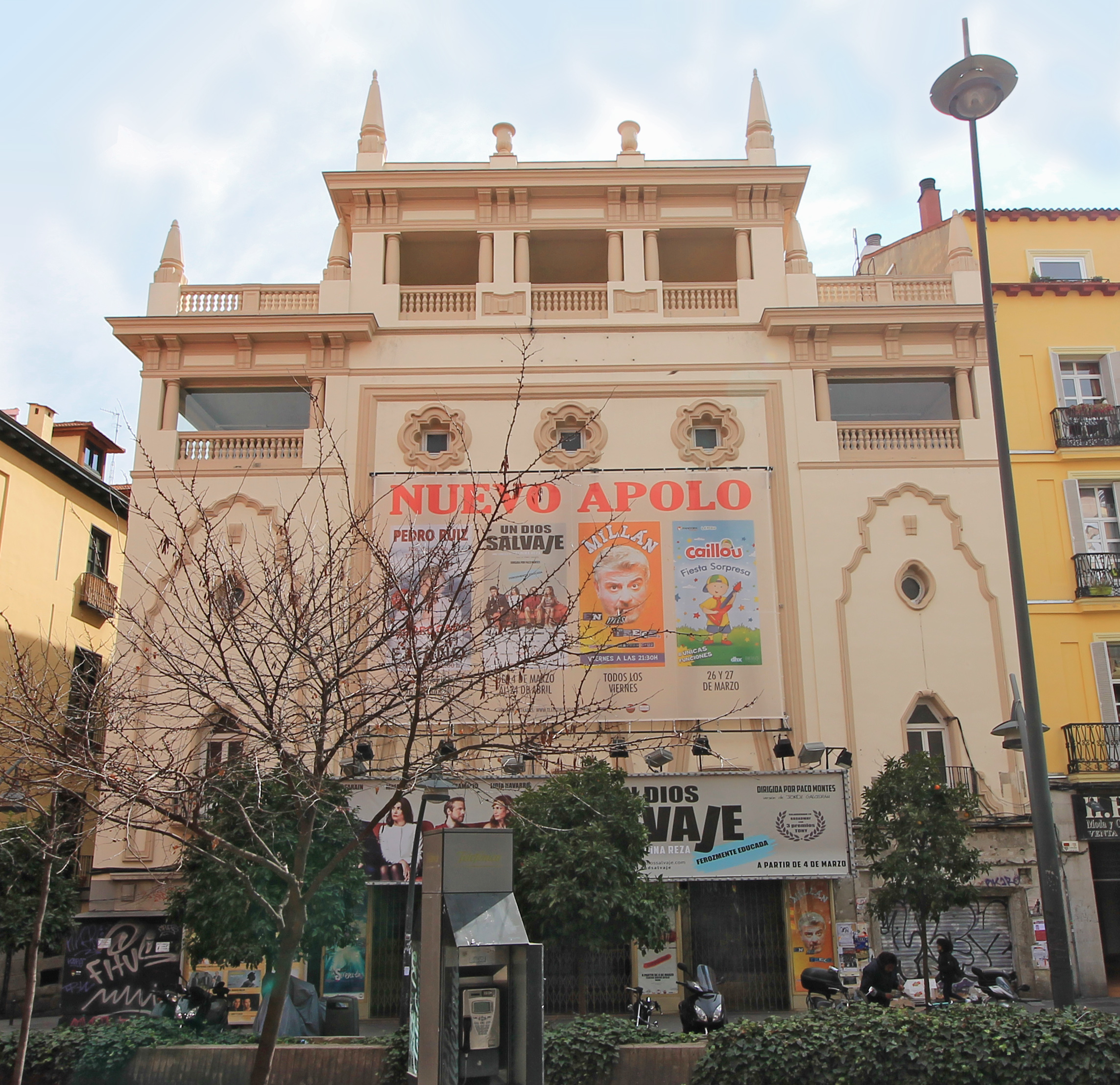 Façade of Teatro Nuevo Apolo (a theater) in Madrid (Spain).